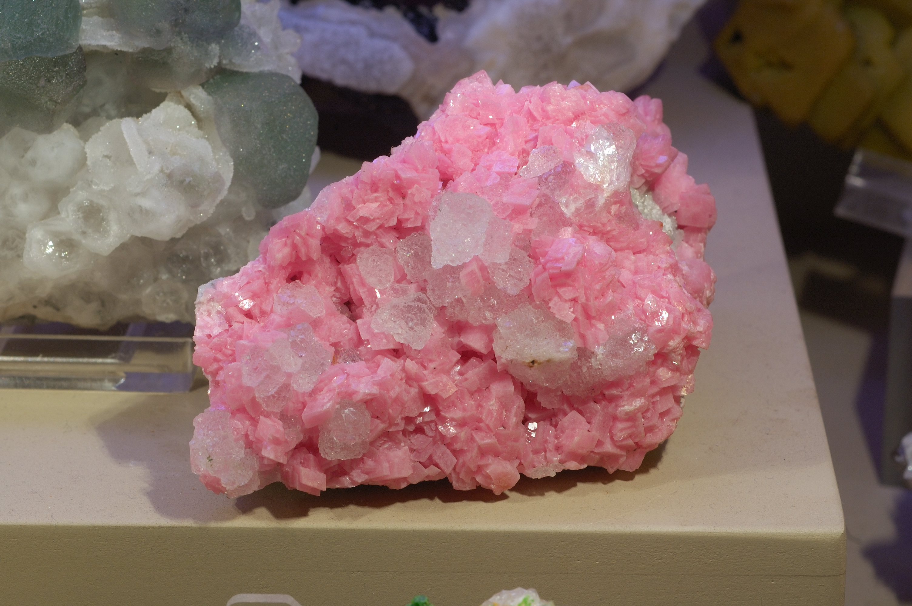 Typical pink form of Rhodochrosite with Quartz, from the Silverton, Colorado, private collection